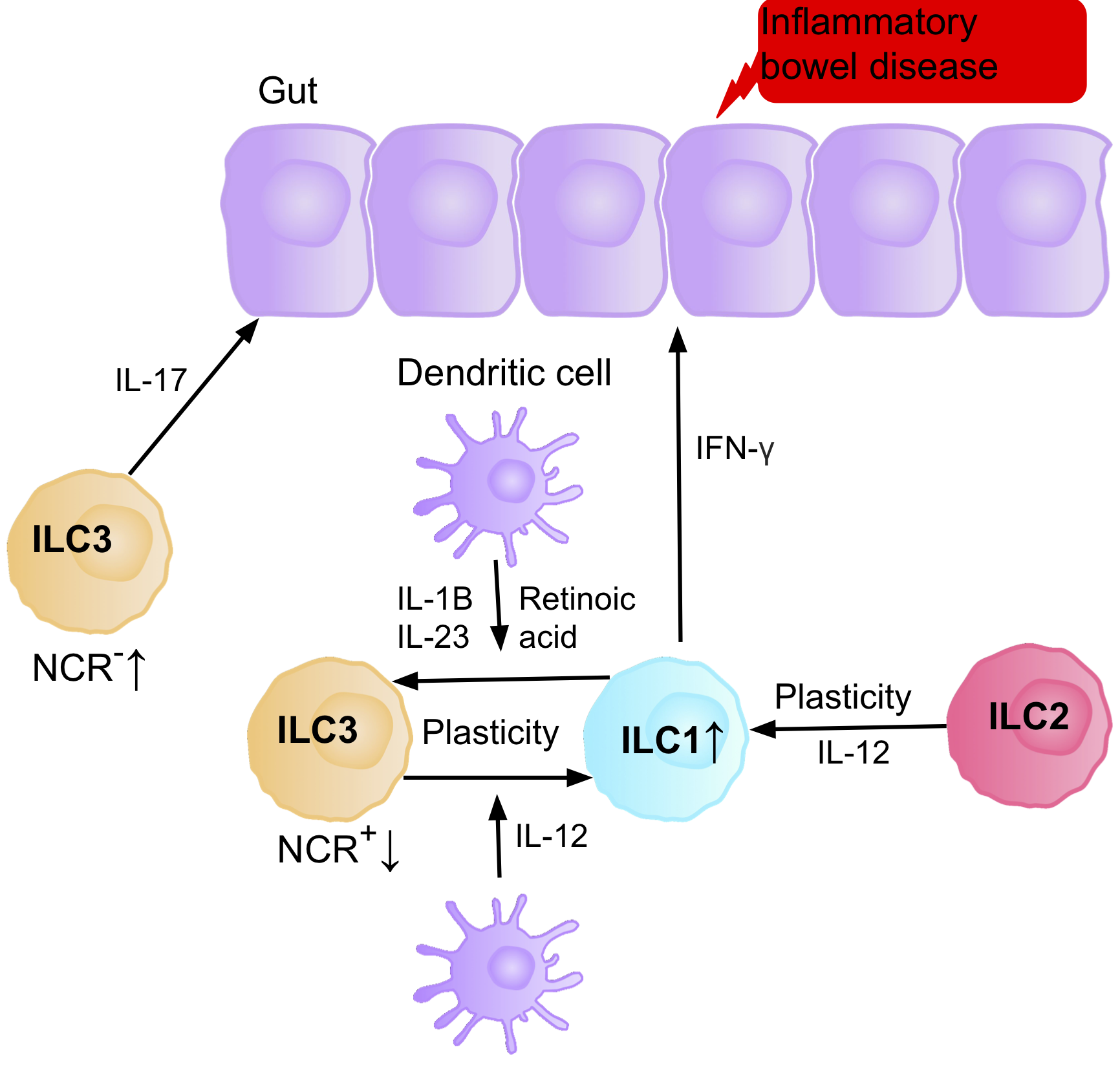 ILCs involved in the pathophysiology of IBD.